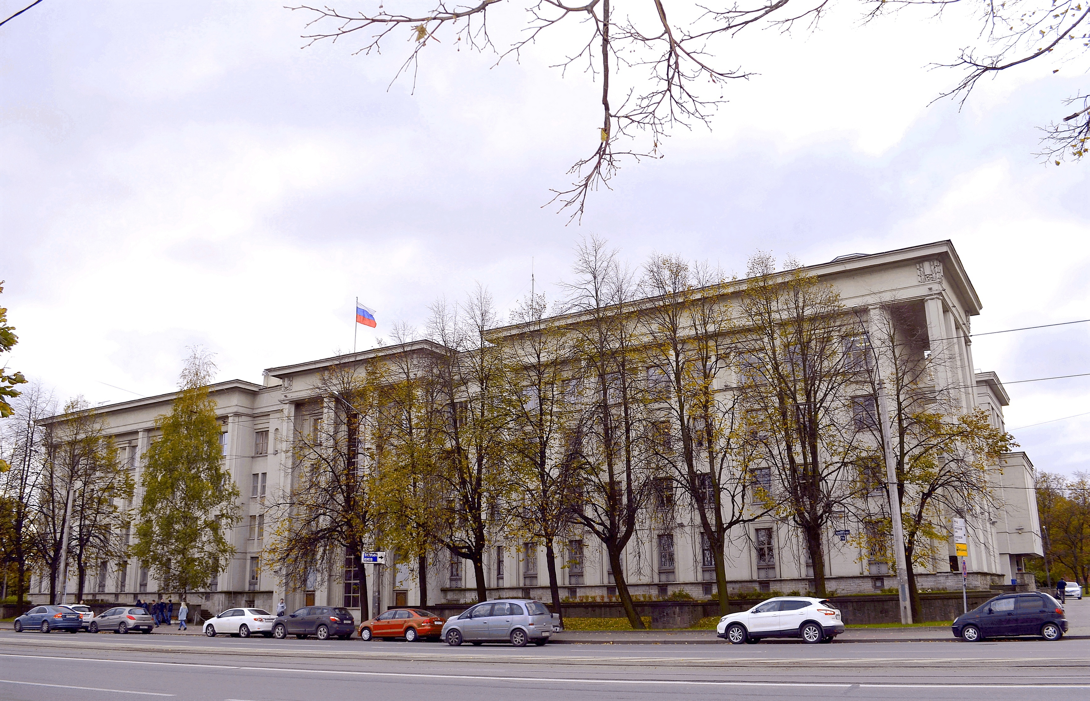 St. Petersburg. Obukhovskoy defense Avenue 163. Building Administration of the Nevsky district (architects E.A. Levinson, I.I. Fomin, Gedike G.E.)